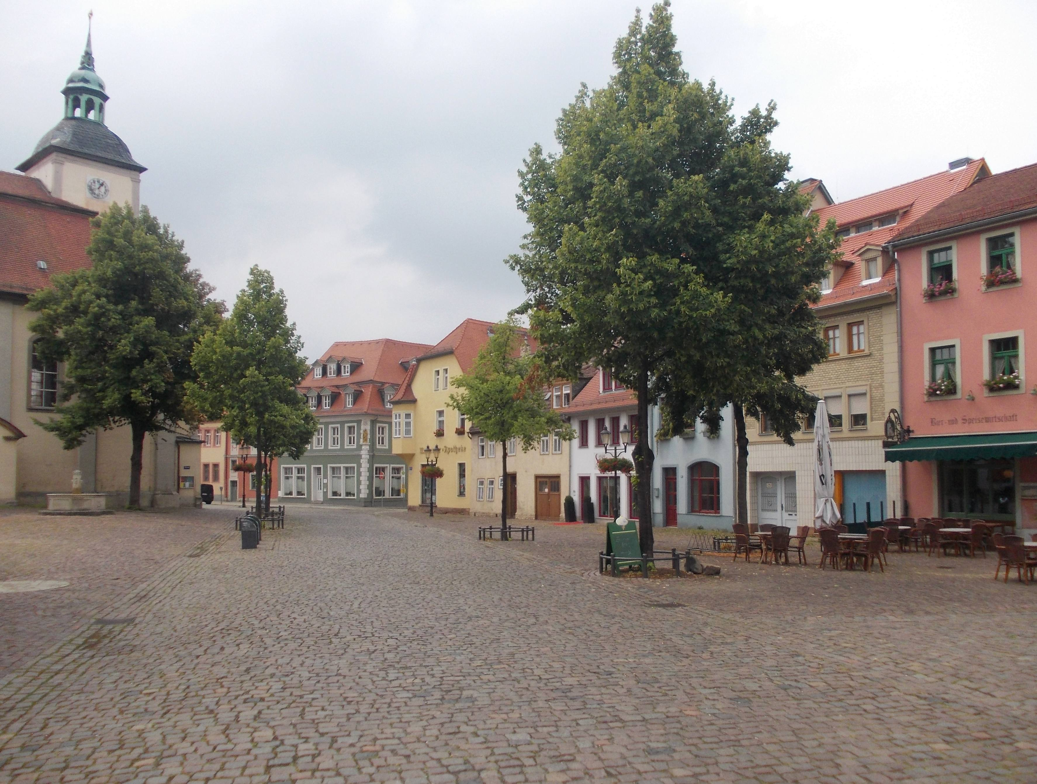 Marienplatz in Naumburg (district: Burgenlandkreis, Saxony-Anhalt)